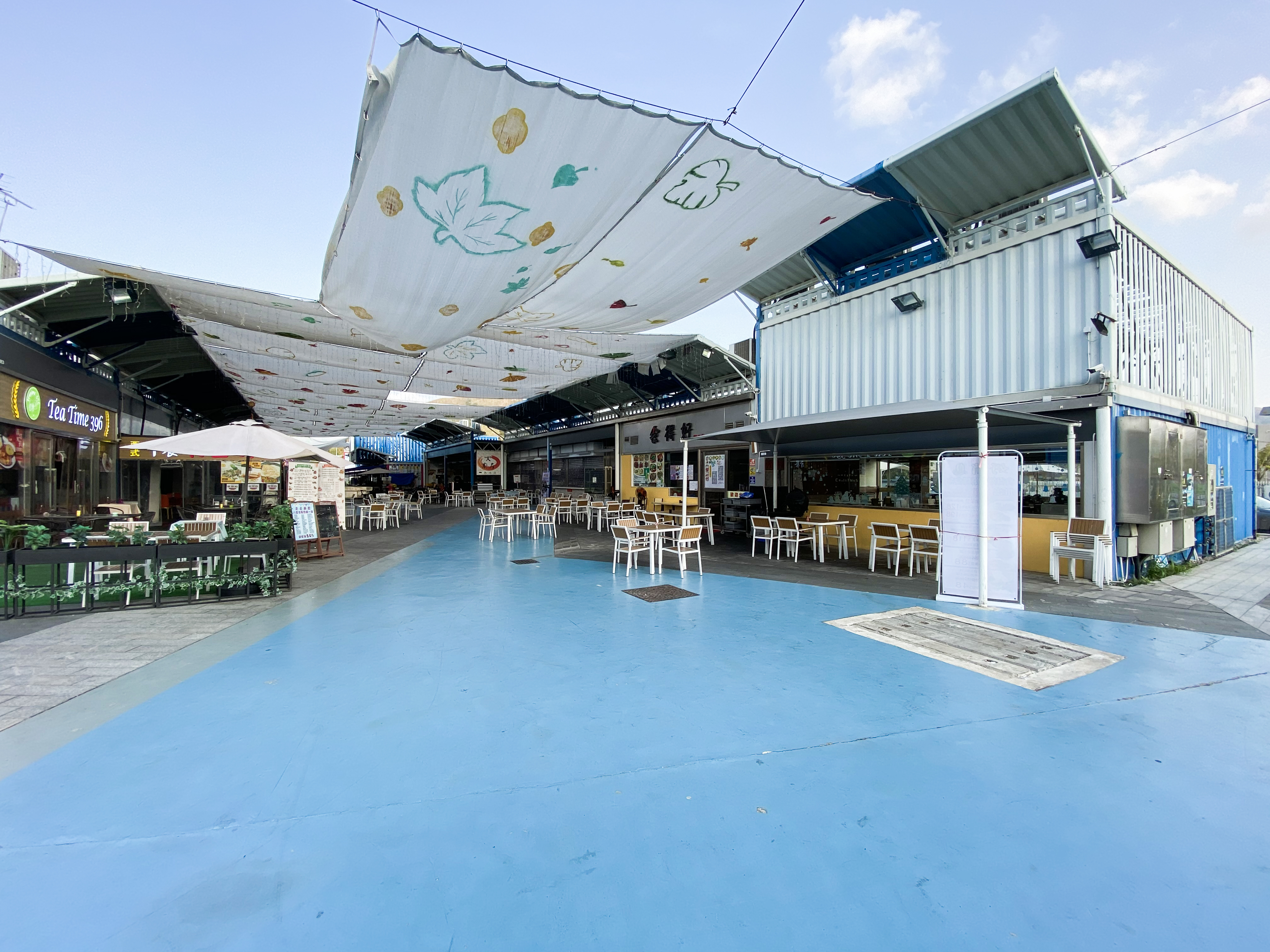 San Tin The Boxes Restaurant